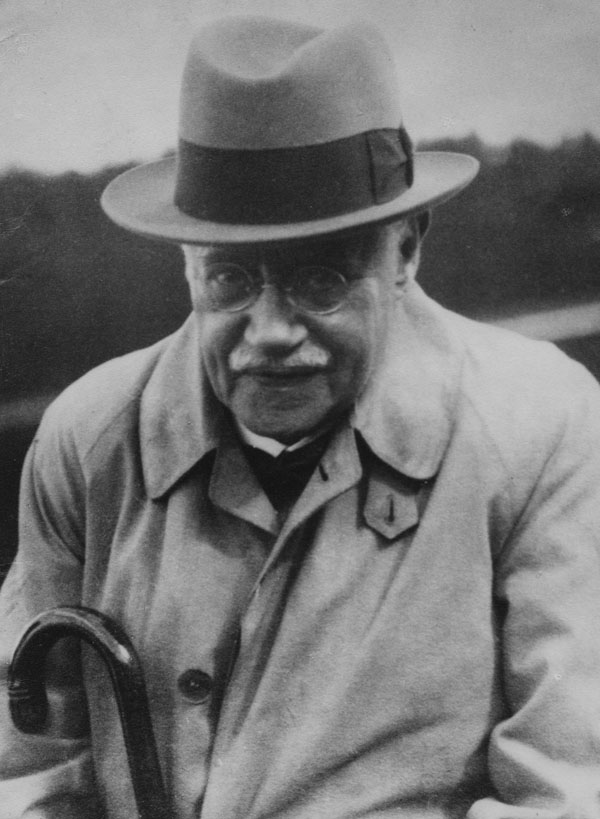 Professor of Sociology 1907-1930 IMAGELIBRARY/265 Persistent URL